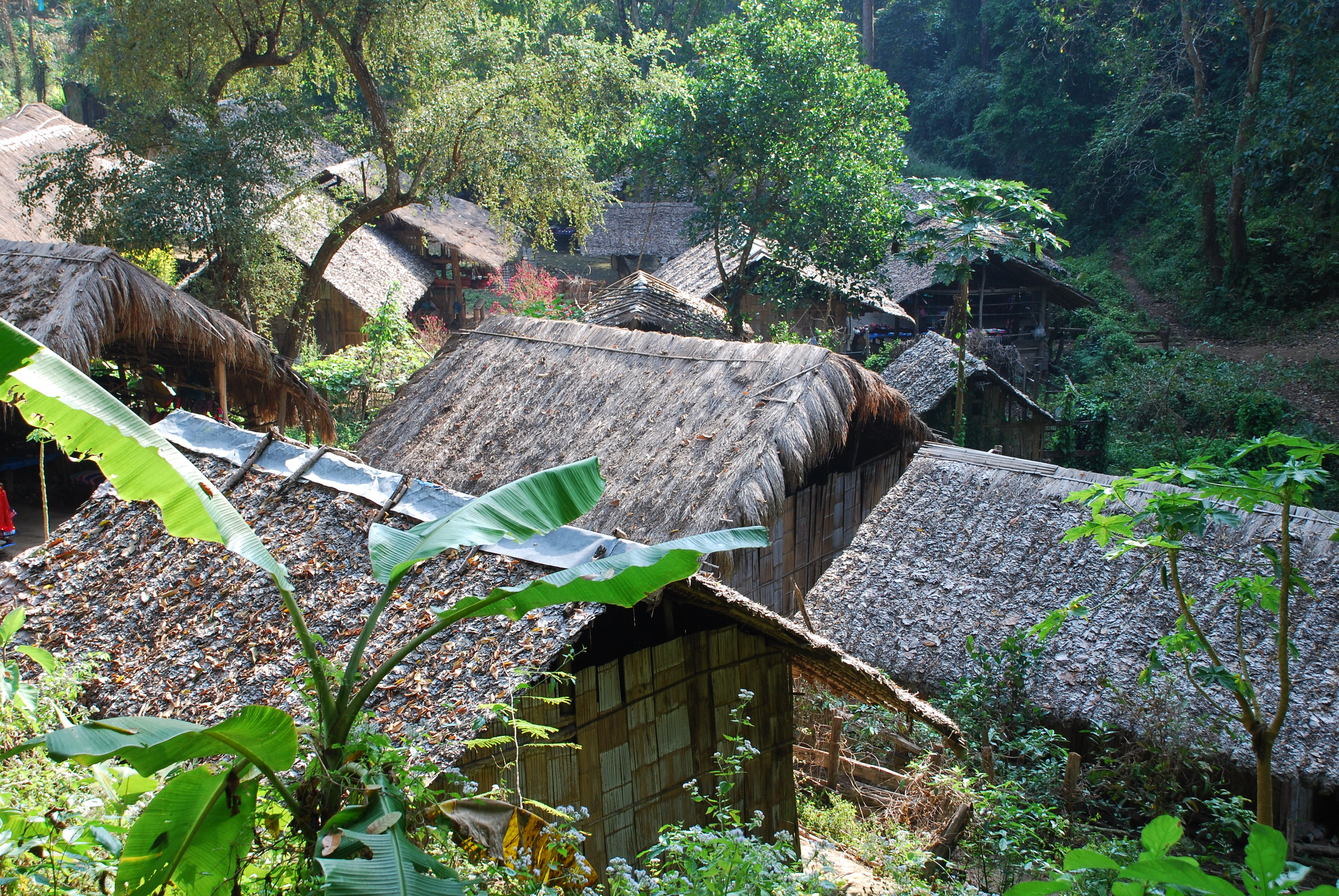 Lisu hill tribe village near Chiang Dao, Thailand